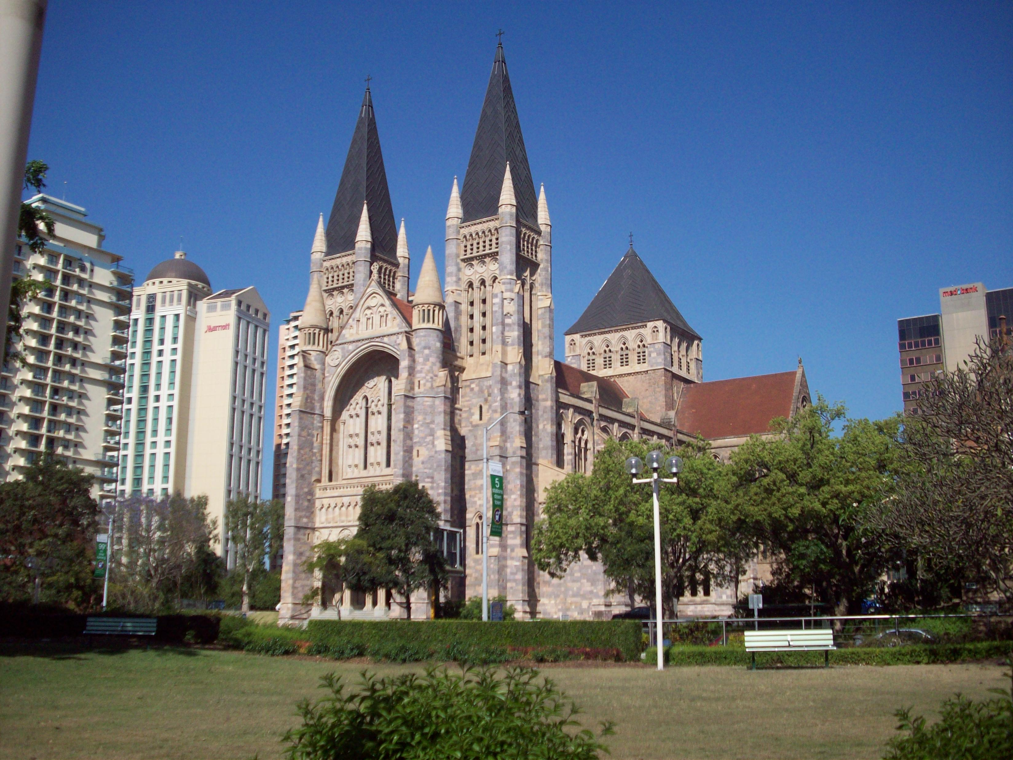 St John's Cathedral, Brisbane, 2009